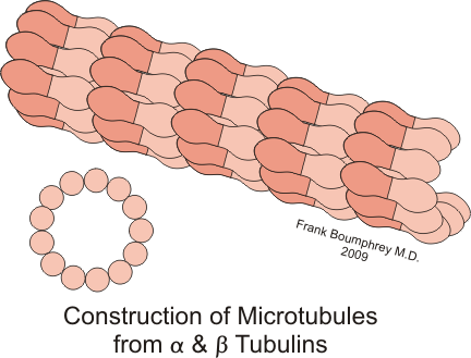 diagram showing microtubules constructed from alpha and beta tubulin